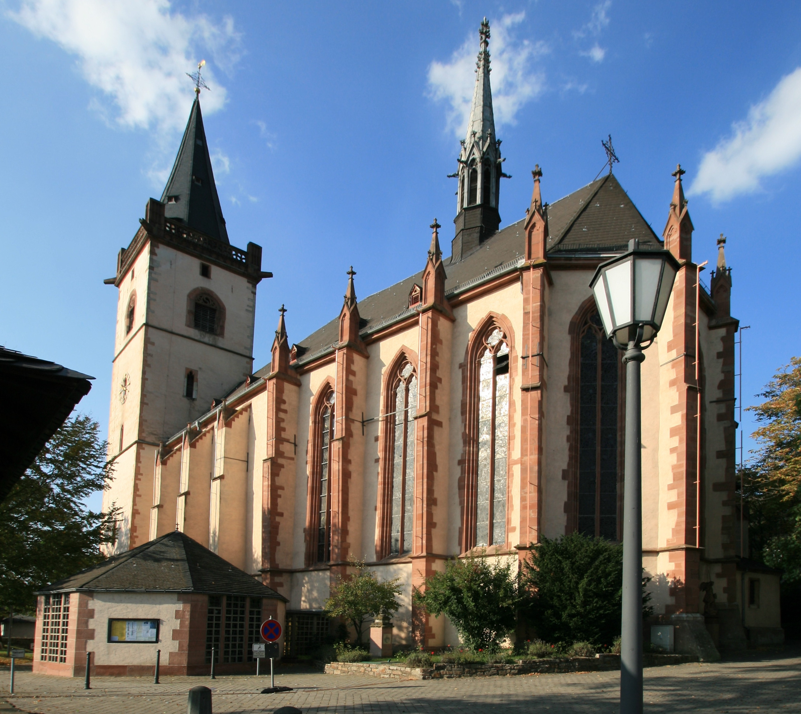 Church of St. Martin, Lorch, Rheingau, Germany